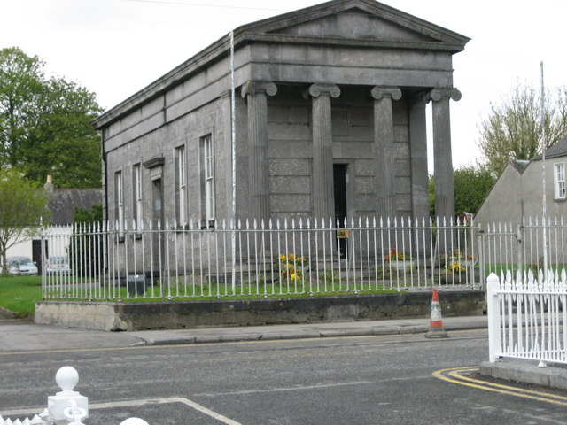 John's Hall, John's Mall, Birr. Johns Mall on the eastern side of the main street developed over the period 1830 to 1880 with classic pieces such as the Ionic temple that is John's Hall (1833) formerly the Mechanics Institute and presently empty. Foley's bronze statue of the astronomer third earl of Rosse (1876) graces the centre of this mall surrounded by carefully crafted iron work.